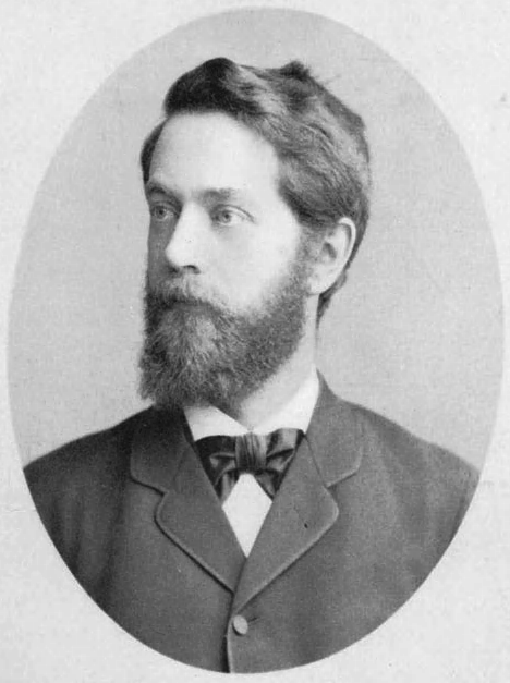 Felix Klein during his Leipzig days